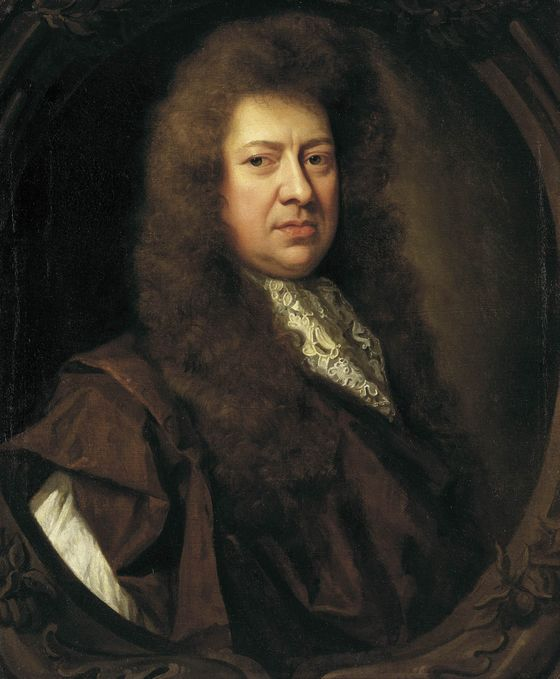 Kneller painted the portrait of Pepys at the same time he painted a portrait of Pepys's longtime friend and employee William Hewer. Both portraits remained in the possession of the Pepys family until they were acquired by the National Maritime Museum in 1931. Courtesy of the Caird Collection, National Maritime Museum, Greenwich, London.